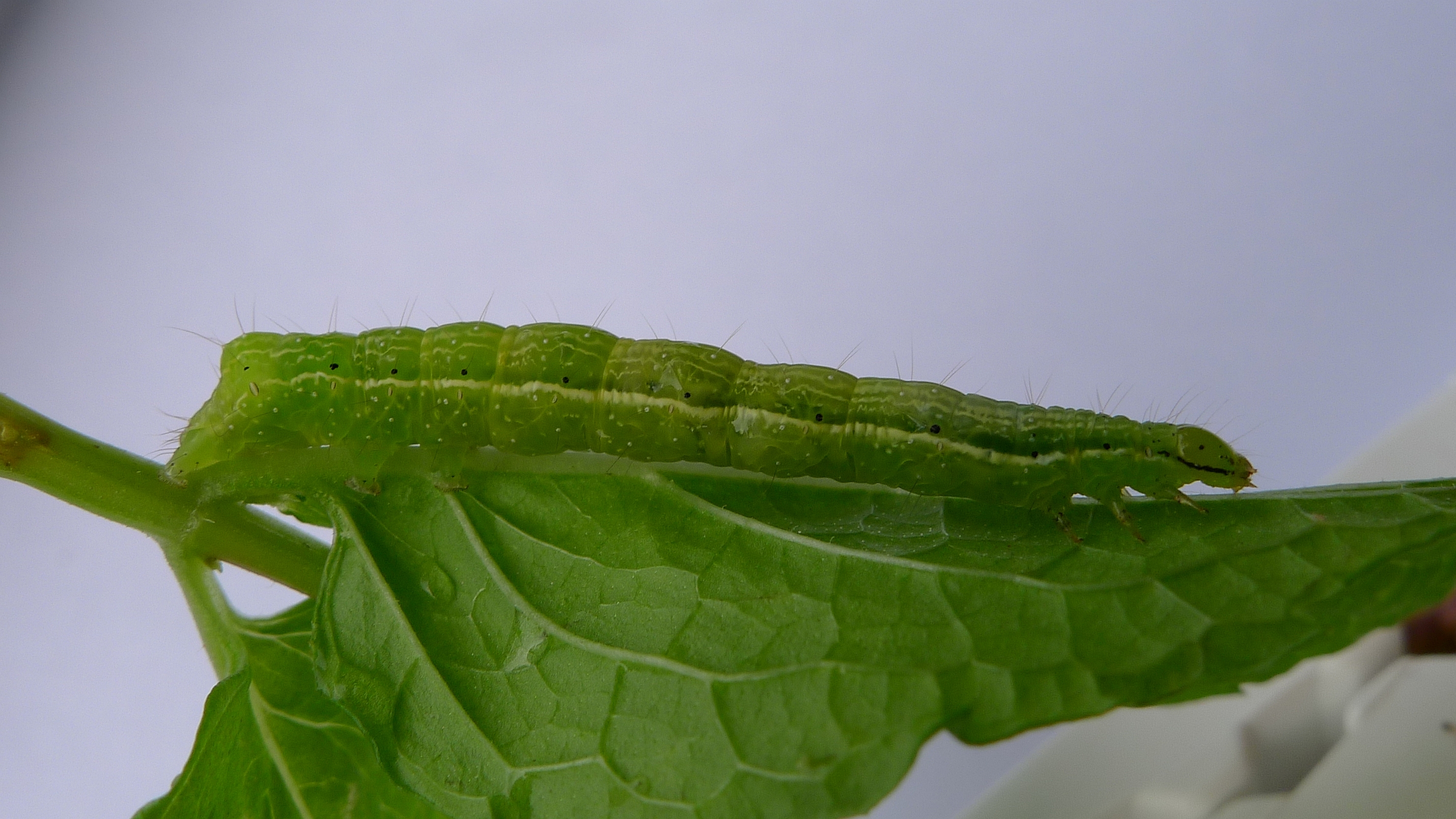 Tobacco Looper, Chrysodeixis argentifera on mint in the garden. Como NSW Australia, January 2012. Chrysodeixis caterpillars have two pairs of abdominal legs; taper towards the head; are green or blue green; arch the middle part of the back and move with a looping motion. When disturbed they move the forward portion of the body about in wide sweeping arcs. Specifically, Chrysodeixis argentifera caterpillars have two longitudinal white stripes on the back and a row of body hairs with dark coloured bases along each side of the body. From AGbulletin 2, The Identification of Armyworm, Cutworm, Budworm and Looper Caterpillar Pests, Graham Goodyer, Department of Agriculture, NSW, February 1978.